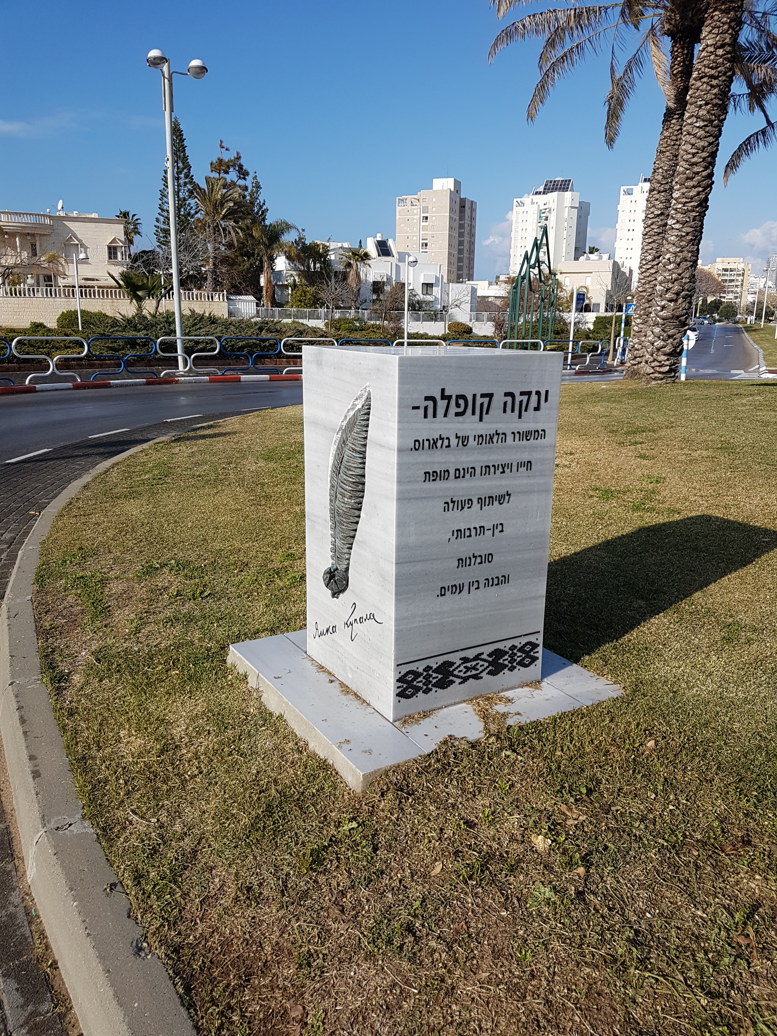 Yanka Kupala monument in Ashdod, the junction of Mota Gur and Rothschild streets. This photo shows the side with text in the Hebrew language. For the side with text in the Belarusian language see File:Yanka Kupala monument in Ashdod - 1.jpg.